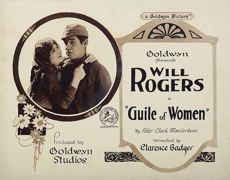 This is a lobby card for the 1921 American silent comedy film Guile of Women.